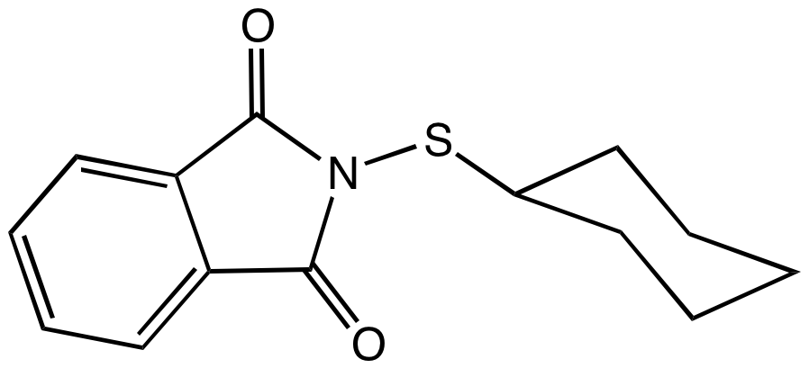 cyclohexylthiophthalimide, corrected structure